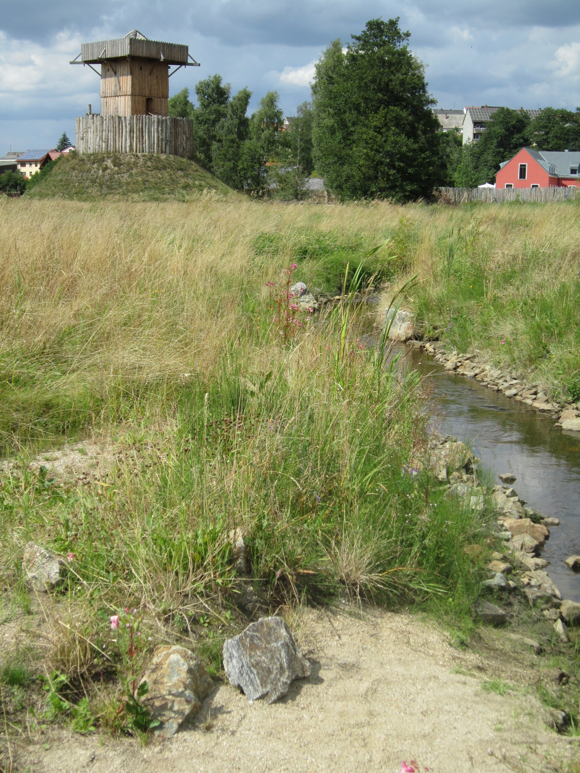 History Park Bärnau-Tachov; river Waldnaab and early medieval castle tower